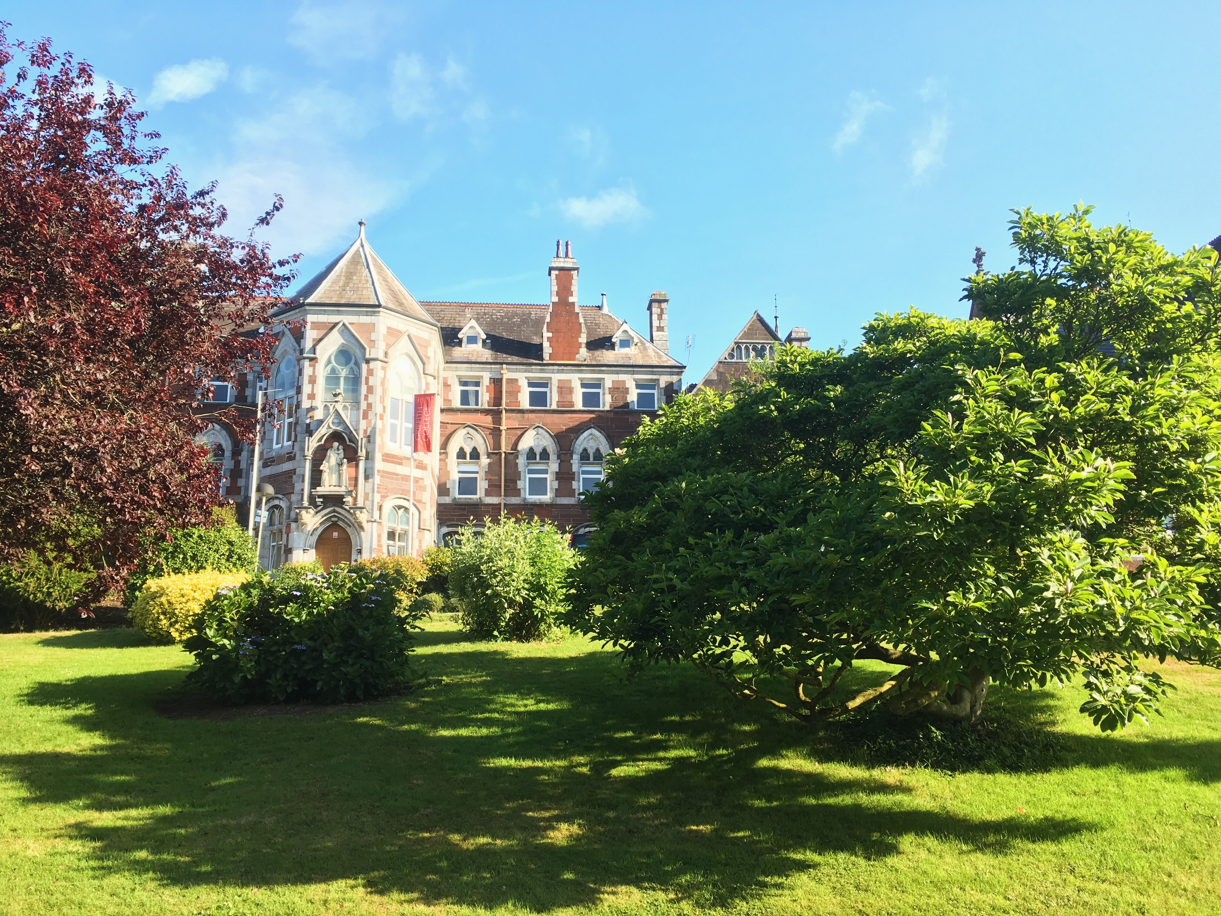 Griffith College Cork Campus